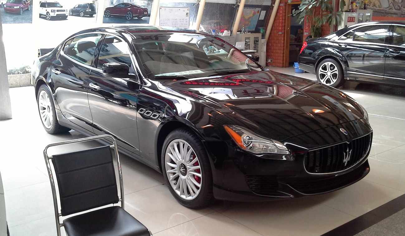 Maserati Quattroporte M156 photographed in Chengdu, Sichuan province, China.